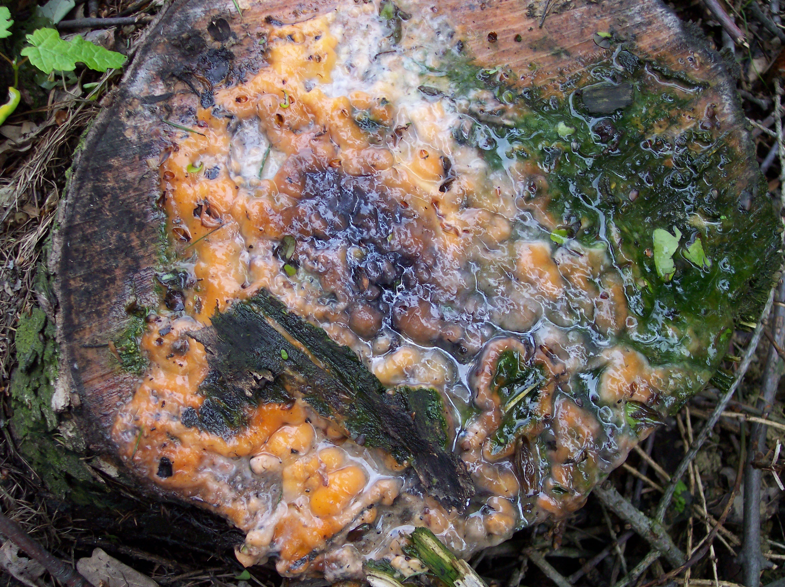 A tree stump covered with a reddish exudate.